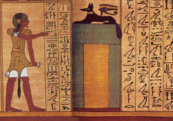 Vignette du Livre des Morts de Ani, British Museum